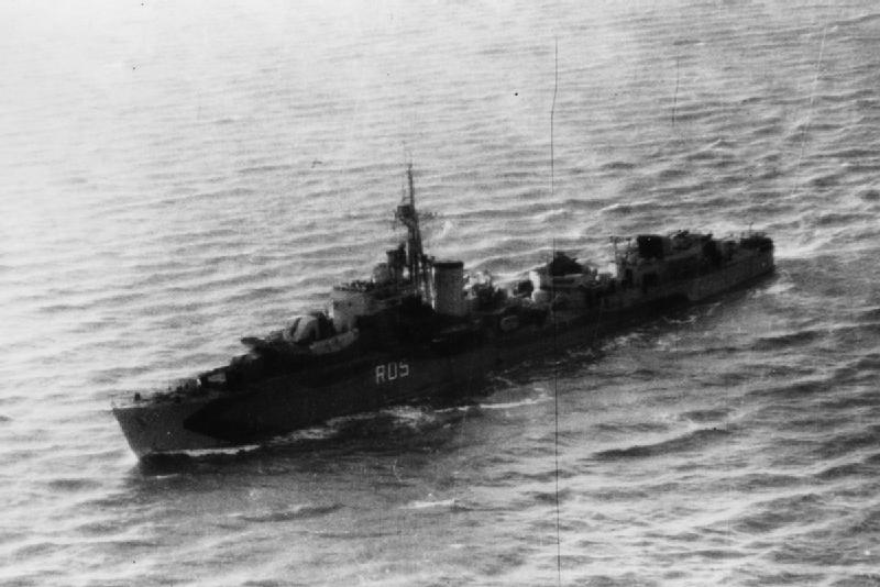 Aerial photograph of British destroyer HMS Urania.